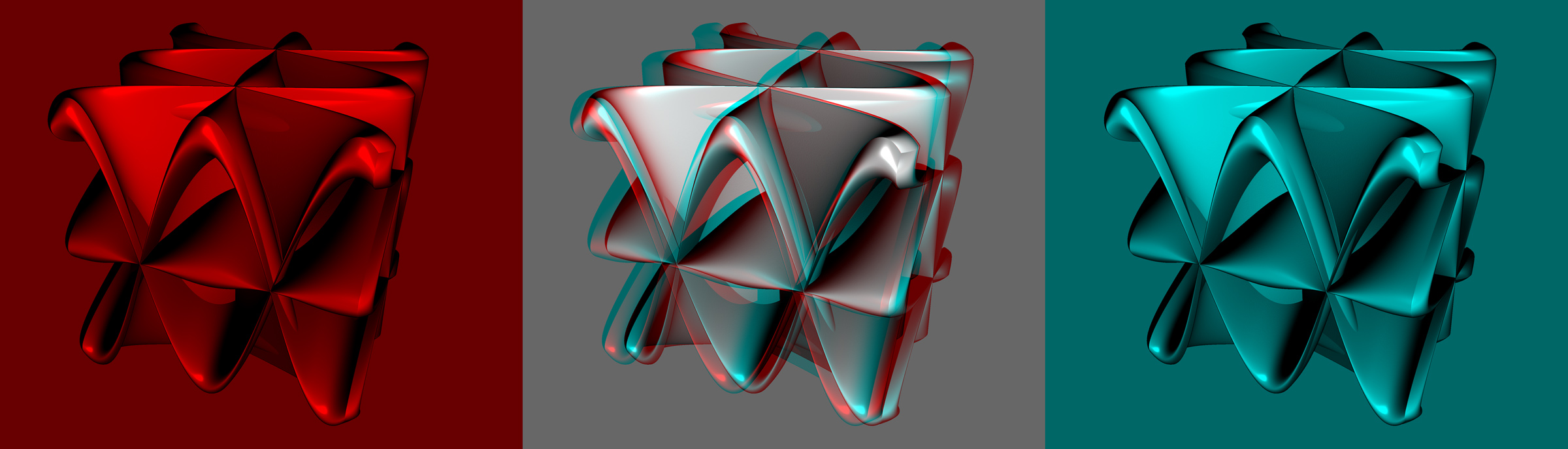 Composition of anaglyph image from a pair of b&w images